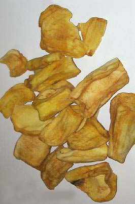 Pictures I took myself of jackfruit chips